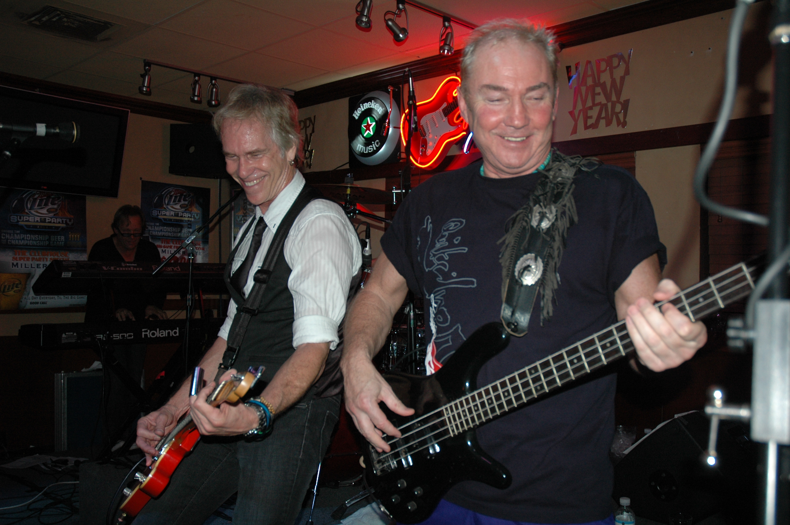 Billy Livesay and Tony Stevens of Slow Ride performing at Conine's Clubhouse in Hollywood, FL